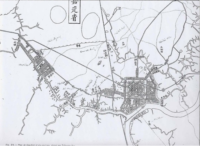 Citadel of Saigon 1815